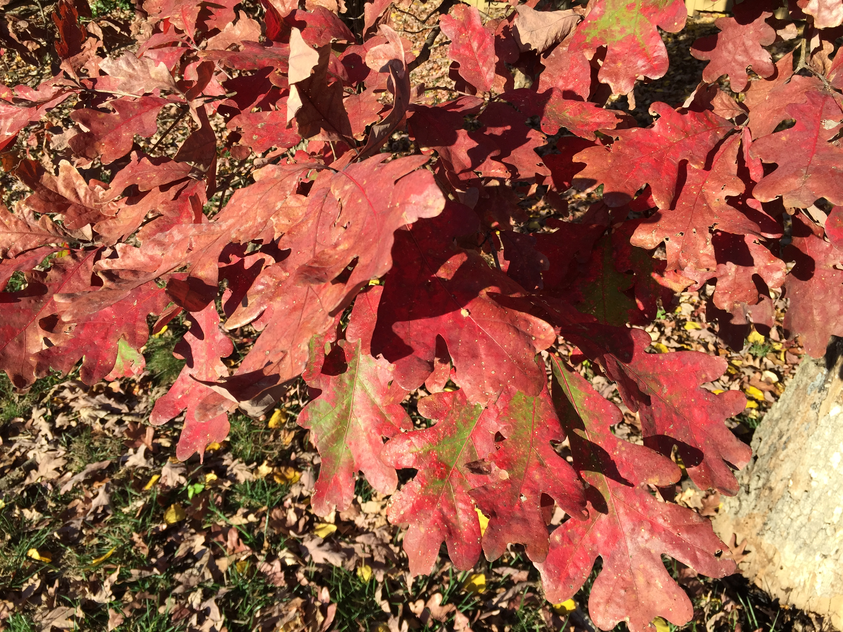 White Oak foliage during autumn along West Ox Road (Virginia State Secondary Route 608) in Oak Hill, Fairfax County, Virginia